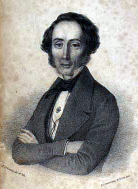 Claudius Rosenhoff (1804-1869)